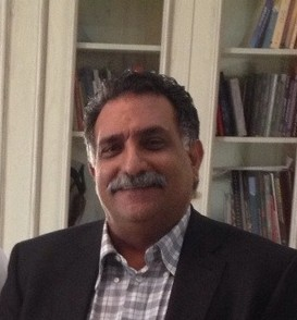 Azmi Bishara in 2013 in Qatar.